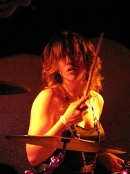 Sarah Tomek playing at Asbury Music Awards